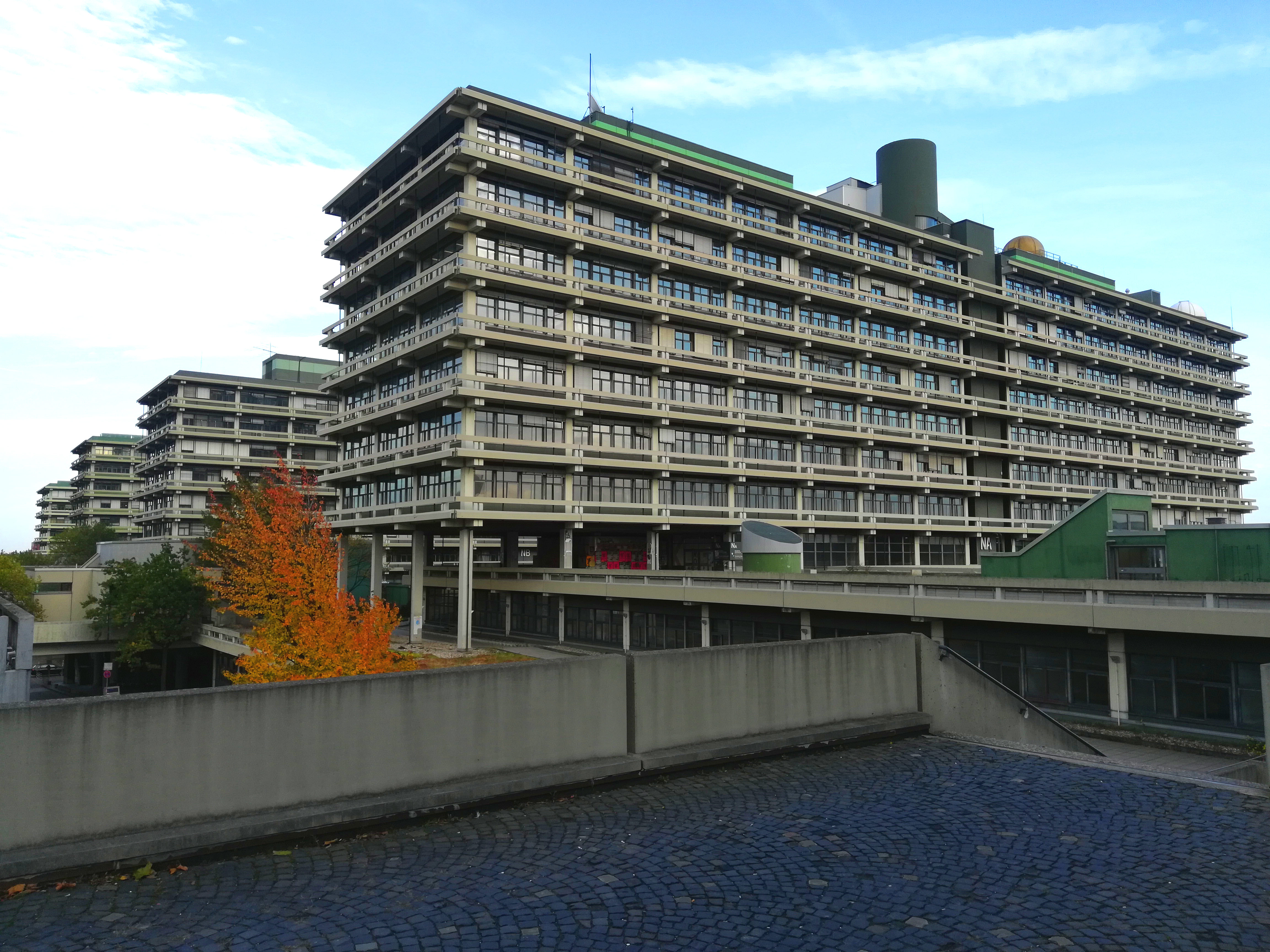 "N-buildings" of Ruhr-University Bochum (natural sciences) in October 2019